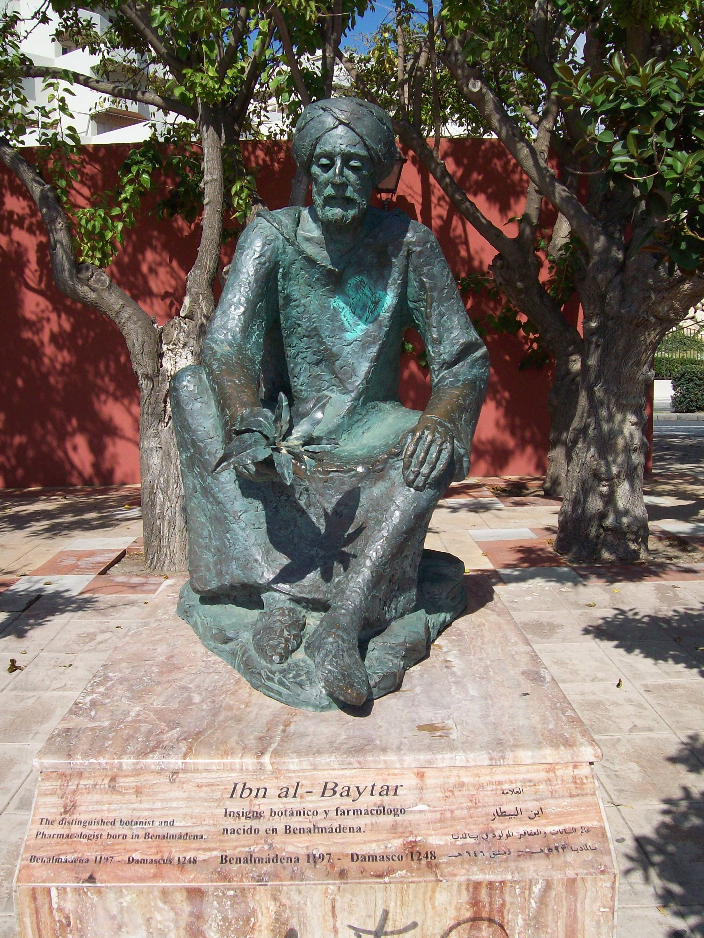 Ibn al-Baytar sculpture, Benalmádena, Málaga, Spain